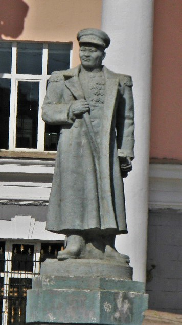 Choibalsan statue in front of the National University of Mongolia